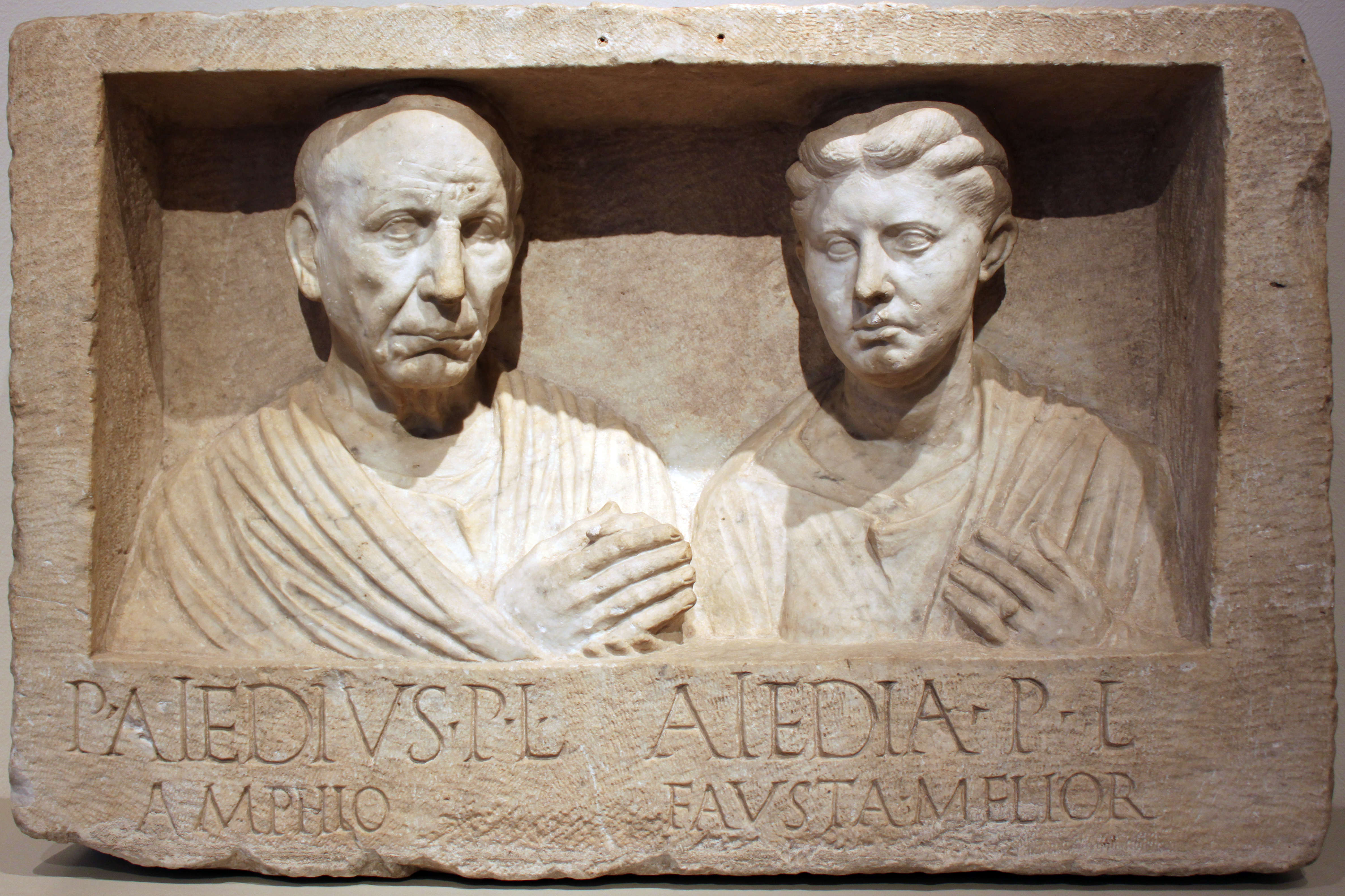 Funerary Relief of Publius Aiedius Amphio and his wife Aiedia; Rome (Italy), Via Appia; 30 BC Altes Museum Native nameAltes MuseumParent institutionBerlin State Museums LocationBerlinCoordinates52° 31′ 10″ N, 13° 23′ 54″ E Established1828Web page control : Q156722 VIAF: 202689698 ISNI: 0000 0001 0940 5889 LCCN: n83197241 GND: 4506837-9 WorldCat institution QS:P195,Q156722 Section: Life and Death in Rome, Sk 840